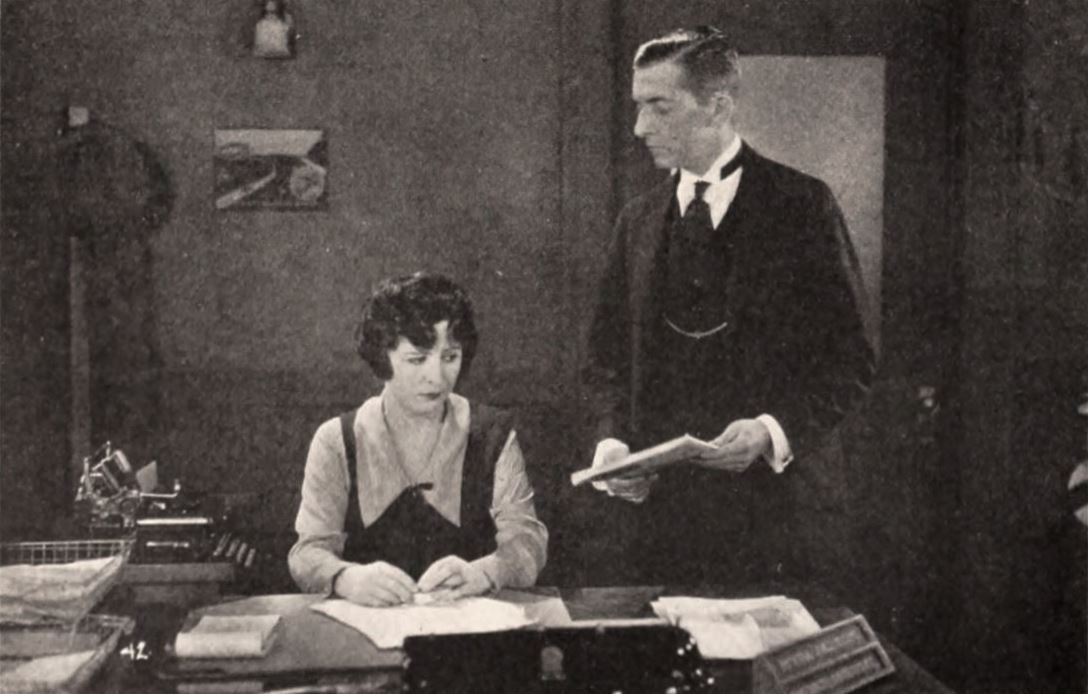 Still from the American comedy film Too Much Business (1922), on page 66 of the April 15, 1922 Exhbitors Herald.